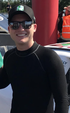 Will Rodgers at New Jersey Motorsports Park in 2018.